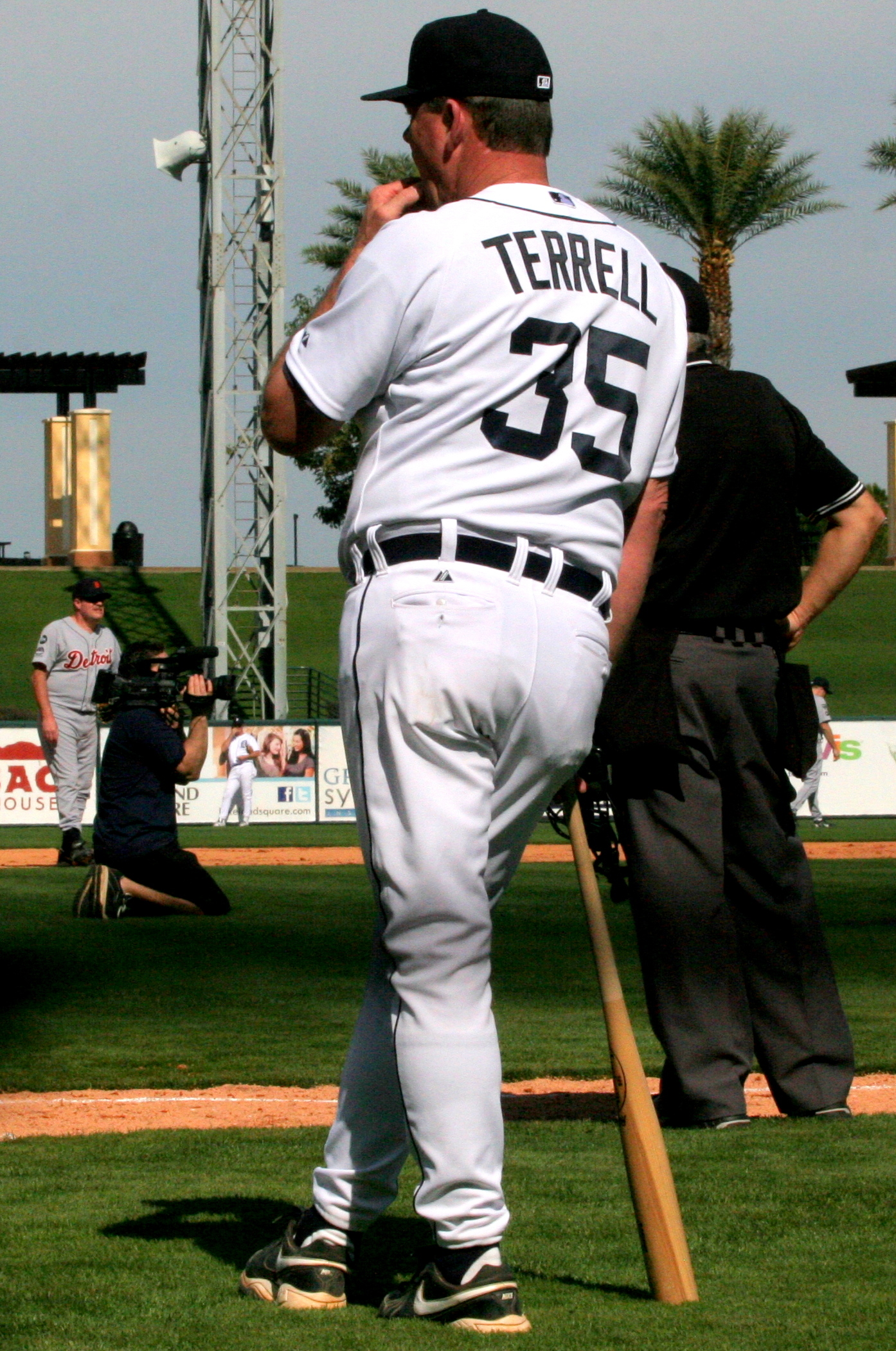 Walt Terrell at 2012 Detroit Tigers Fantasy Camp in Lakeland, Florida